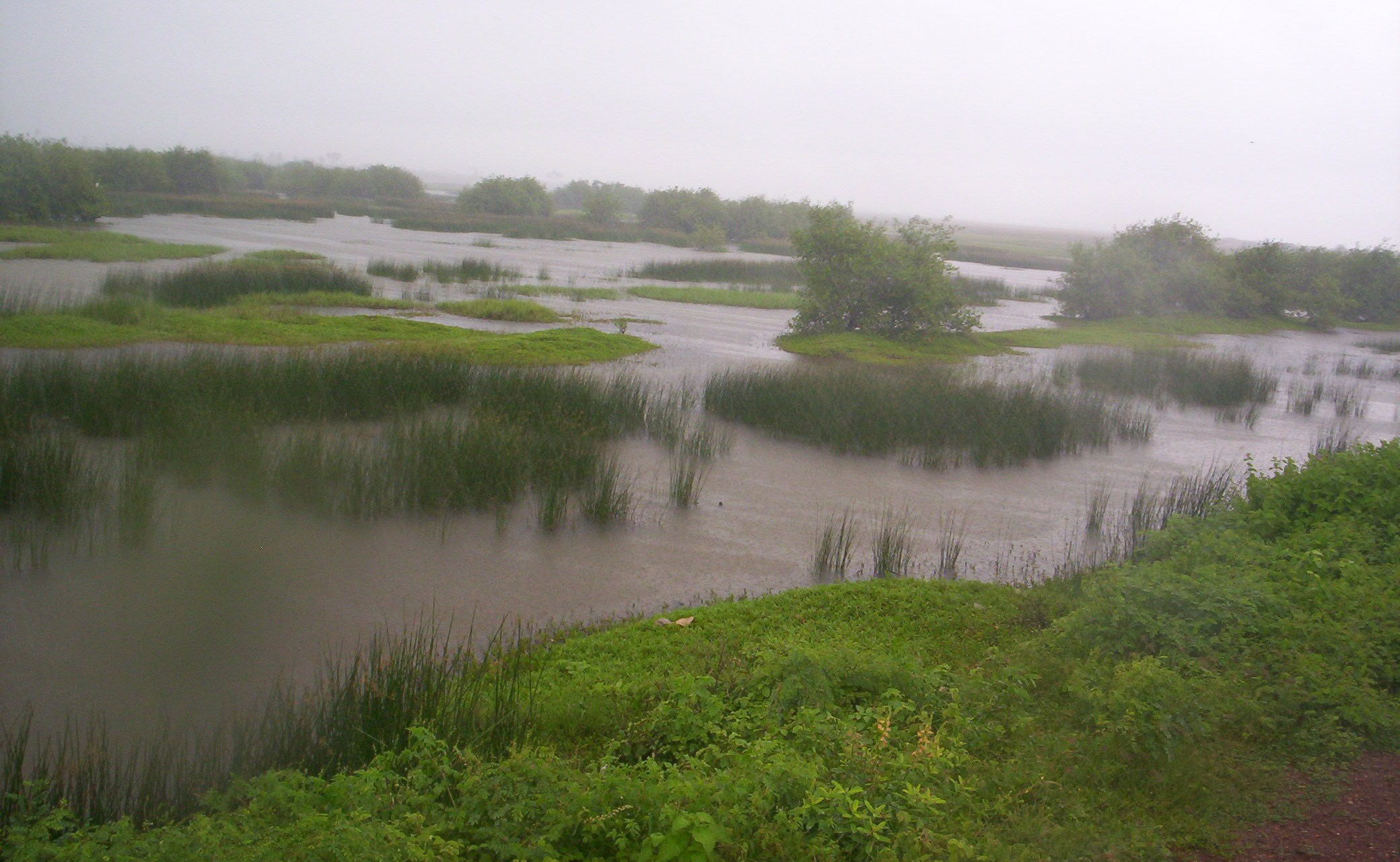 Denu lagoon and its marshy surrounding vegetation